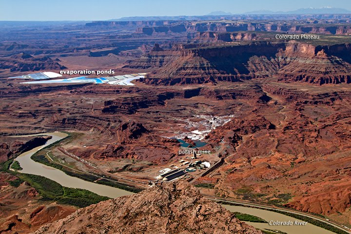 In Utah, the miners pump water deep underground to reach the potash ore. Potash is soluble, so water dissolves it into a brine. That brine gets pumped into underground caverns, where the potash continues to dissolve. Eventually, a highly-concentrated brine is pumped all the way to the surface and into one of the evaporation ponds shown above. As the water evaporates, potash and other salts crystallize out. This evaporation process typically takes about 300 days. The water is dyed bright blue to reduce the amount of time it takes for the potash to crystallize; darker water absorbs more sunlight and heat. The crystals of potash and salt are then sent to a facility to be separated through a flotation process. In 2013, the United States produced about 970,000 metric tons of potash, about two percent of global production. The fertilizer industry consumed about 85 percent of the potash produced by the United States; the chemical industry used the rest. About 60 percent of the U.S. potash was the muriate type produced at the Moab mine.